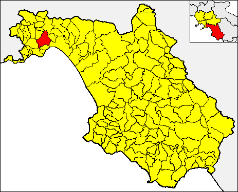 Locator map of the municipality of Cava de' Tirreni (red) within the Province of Salerno